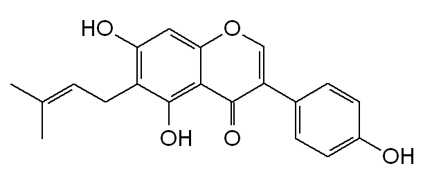 Chemical structure of Wighteone.